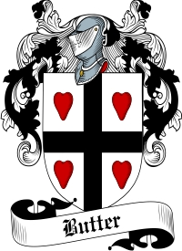 Butter of Gormok,Coat of arms